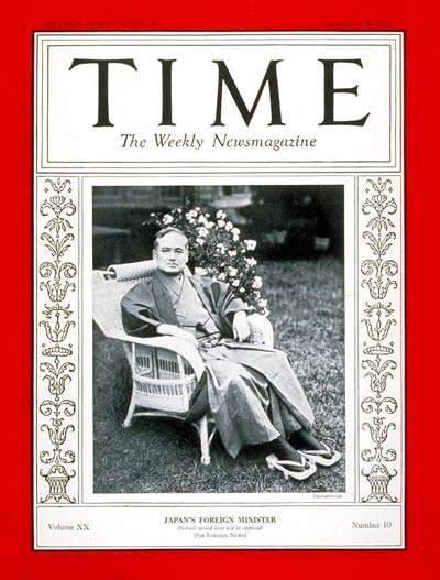 Description: Count and Japanese Foreign Minister Uchida Kosai (Uchida Yasuya) on the cover of Time Magazine. Date: September 5 1932. Author: Time Magazine Time failed to renew the copyrights of many early issues. See wikisource:Time (magazine) The following issues of Time magazine are in the public domain. Before vol 23, no 5: before 22 Jan 1934 Vol 25, no 1 – vol 27, no 23: 7 Jan 1935 – 29 Jun 1936 Vol 34, nos 1–10: 3 Jul 1939 – 4 Sep 1939 Vol 45, nos 2–5: 7 Jan 1945 –29 Jan 1945